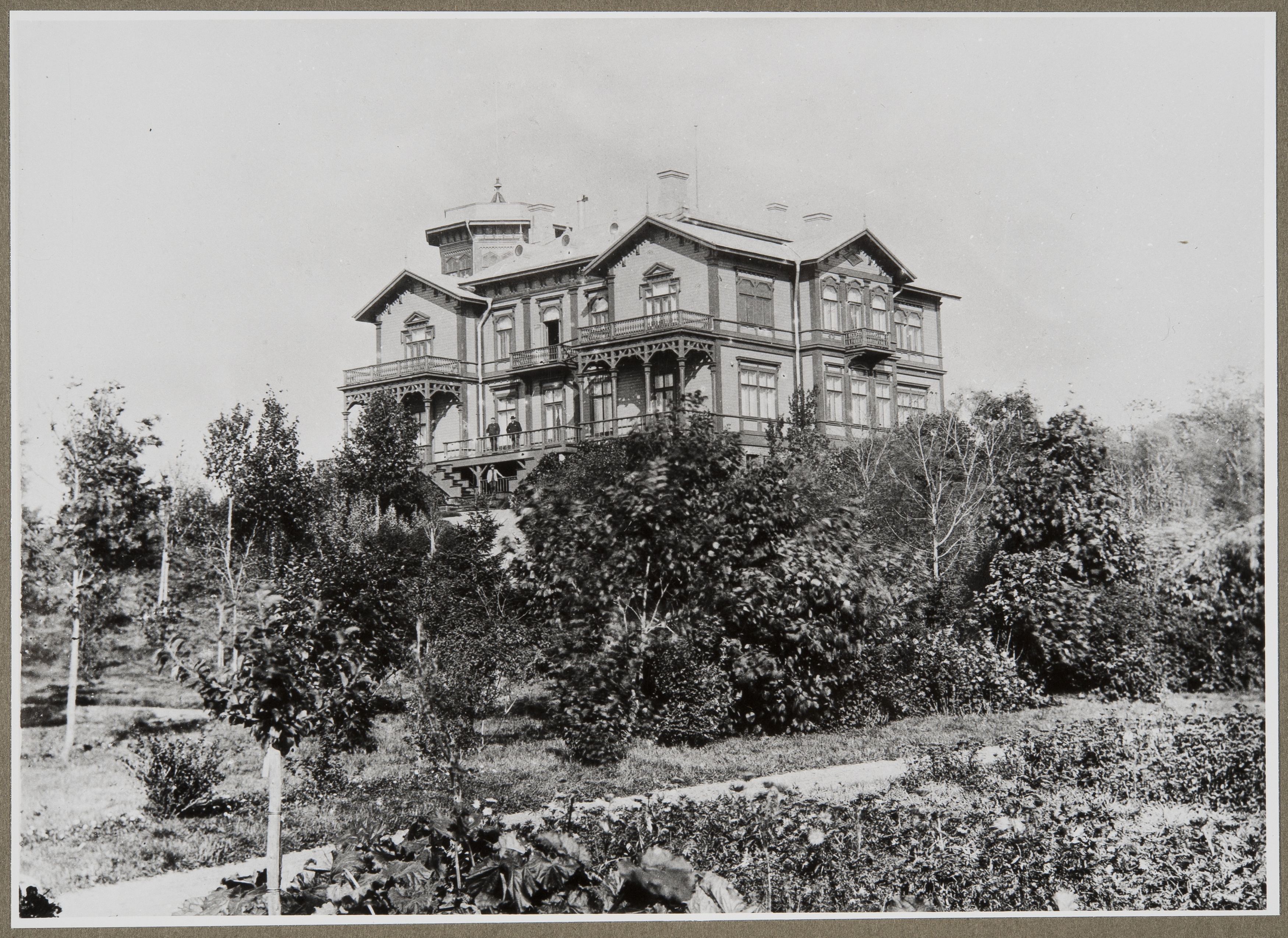 Old Villa Billnäs, destroyed in a fire 1915. Architect Sebastian Gripenberg, 1884